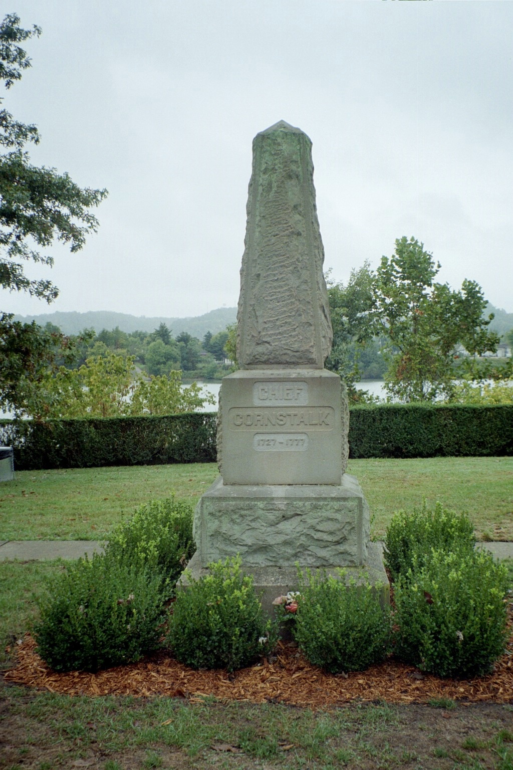 Gravesite of Cornstalk, Point Pleasant, West Virginia. Photographed 2005. Category:United States history images